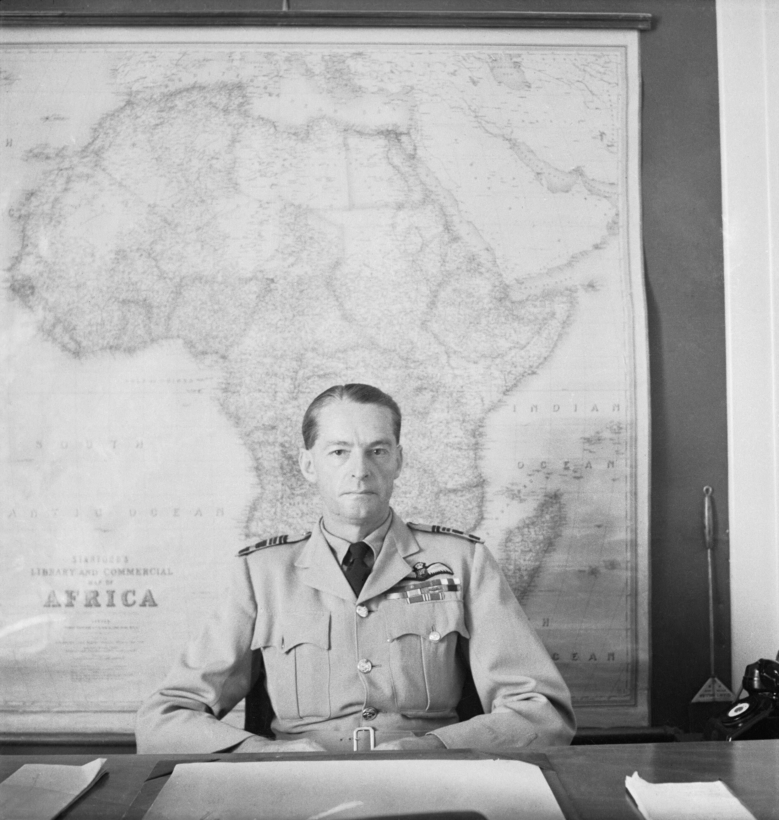 Cecil Beaton Photographs- Political and Military Personalities Military Personalities: Half length portrait of Air Marshal R M Drummond, Deputy Commander of the Royal Air Force in the Middle East, seated at his desk in front of a map.